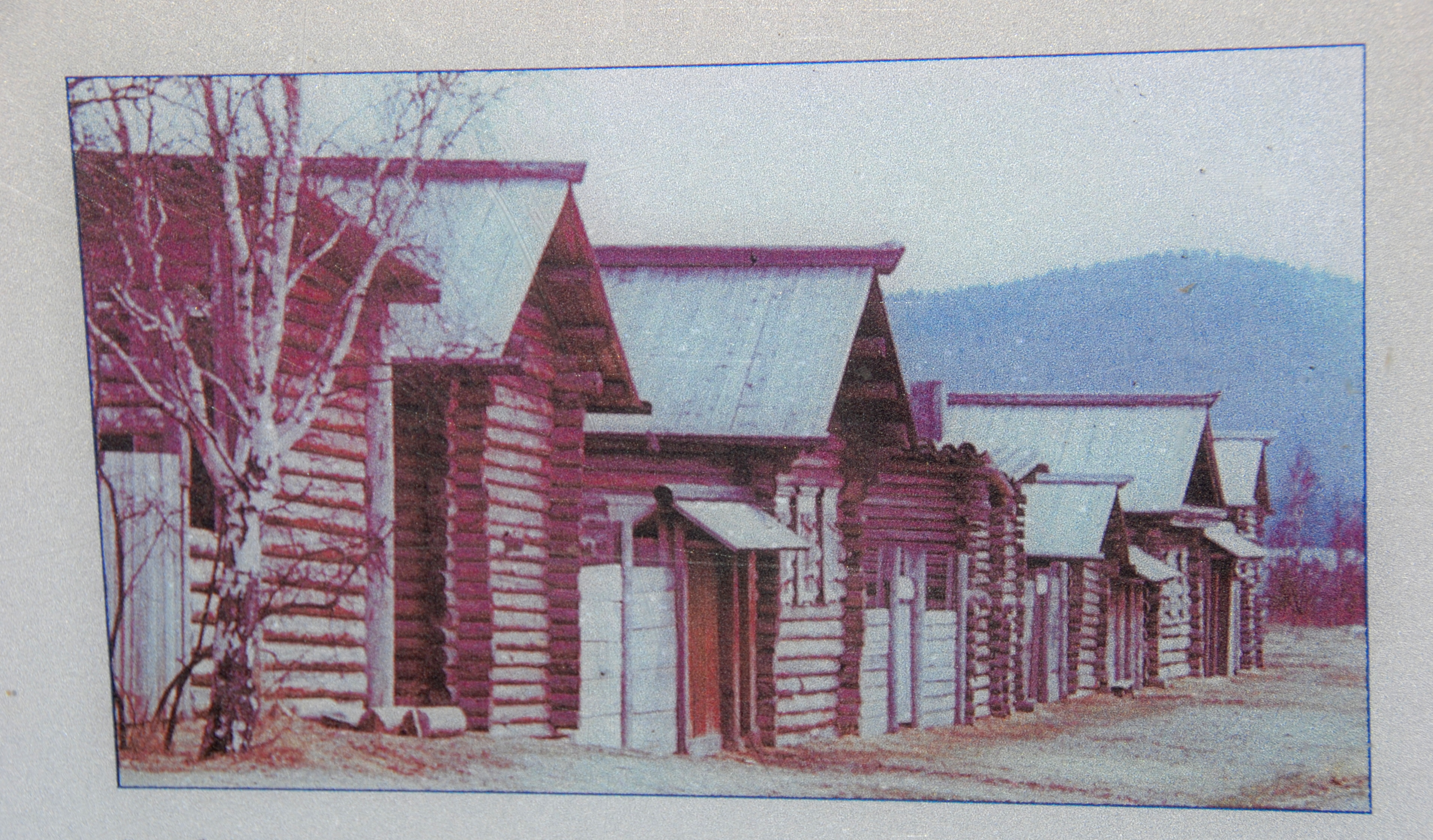 Watercolor "Settlement Ross, 1841". The watercolor shows the village or sloboda outside of Fort Ross compound. In 1841 inventory for Mr. Sutter describes the village: "...twenty-four planked dwellings with glazed windows, a floor and a ceiling; each had a garden. there were eight sheds, eight bathhouses and ten kitchens."